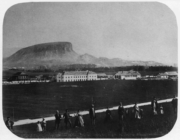 the Simeria railway station in 1870